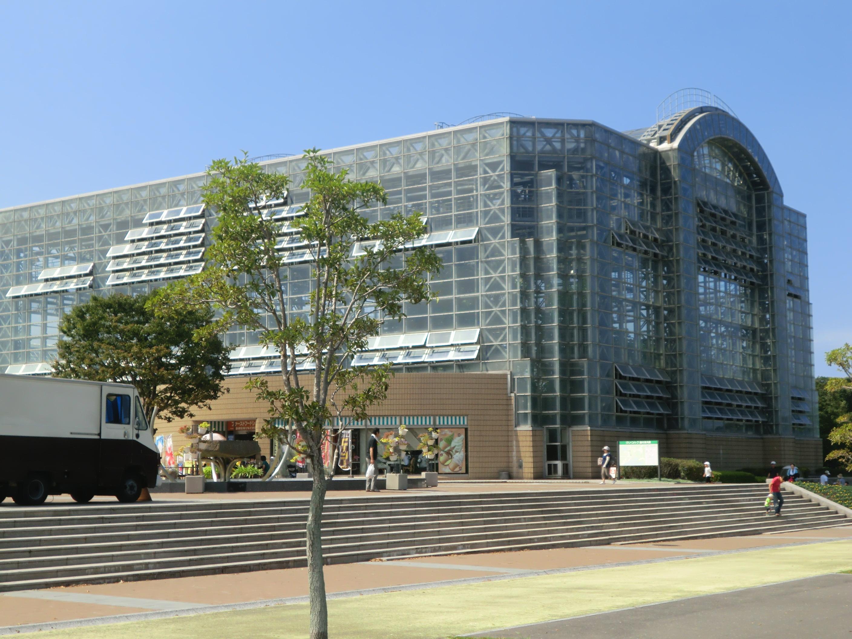 "Nettai seitai en"(Tropics ecology park) at Greenpark in Kitakyushu,Fukuoka,Japan.